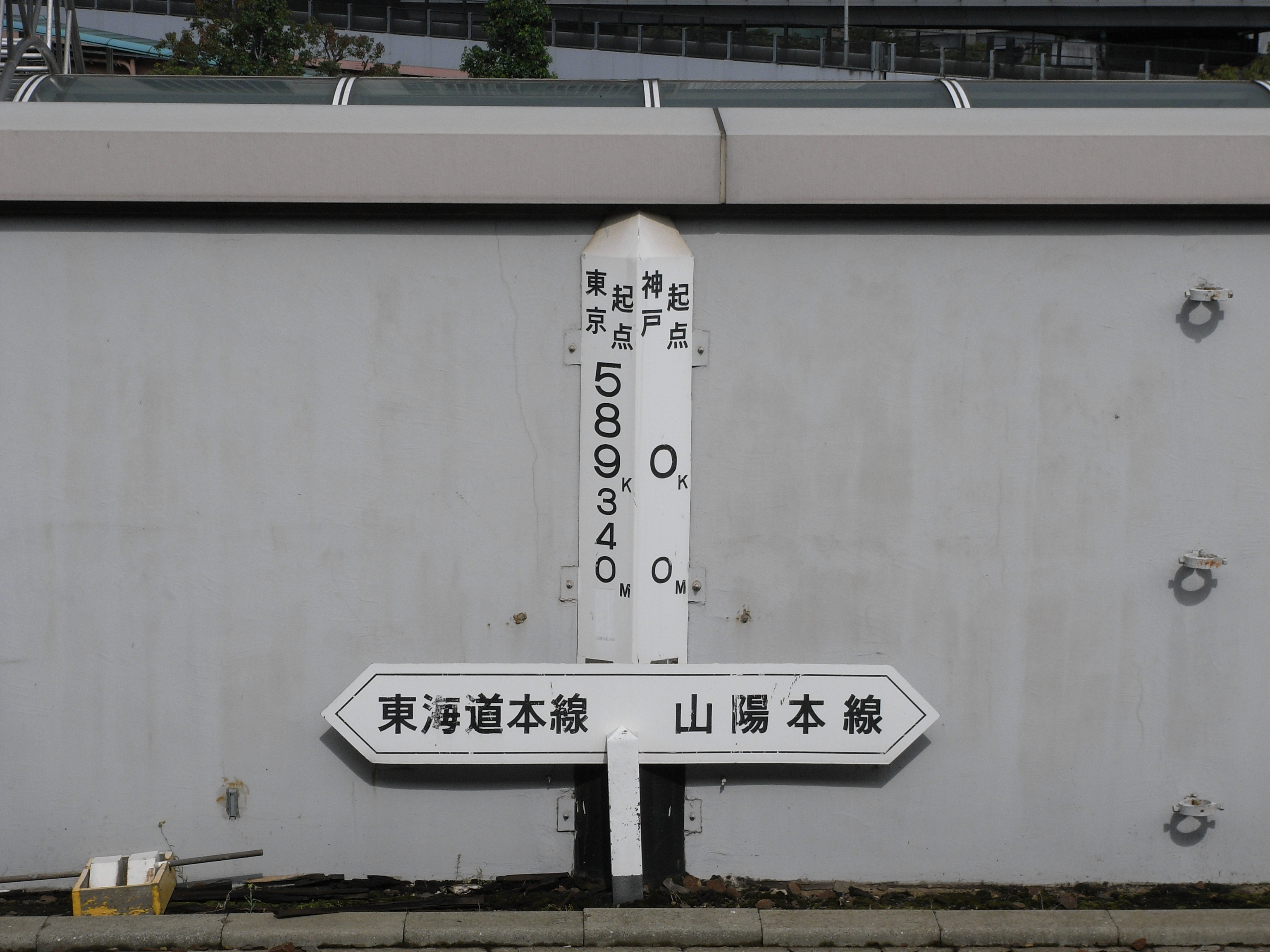 The border between Tōkaidō Main Line and San'yō Main Line at Kobe Station, Japan.